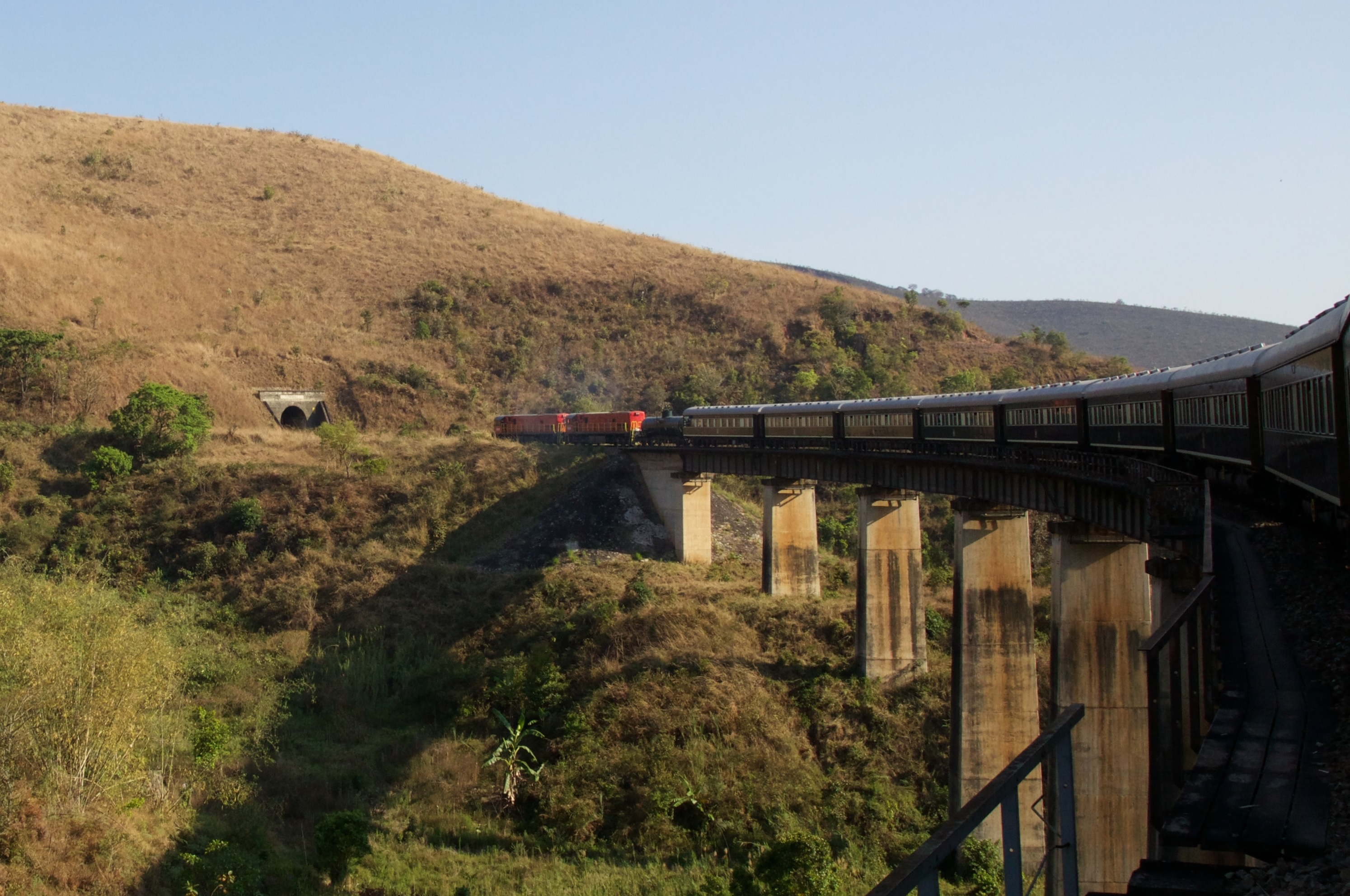 Rovos Rail Pride of Africa on the bridge across the Mpanga River in Tanzania. This viaduct is 160 feet high and the tunnel that it heads into is one-half mile long.